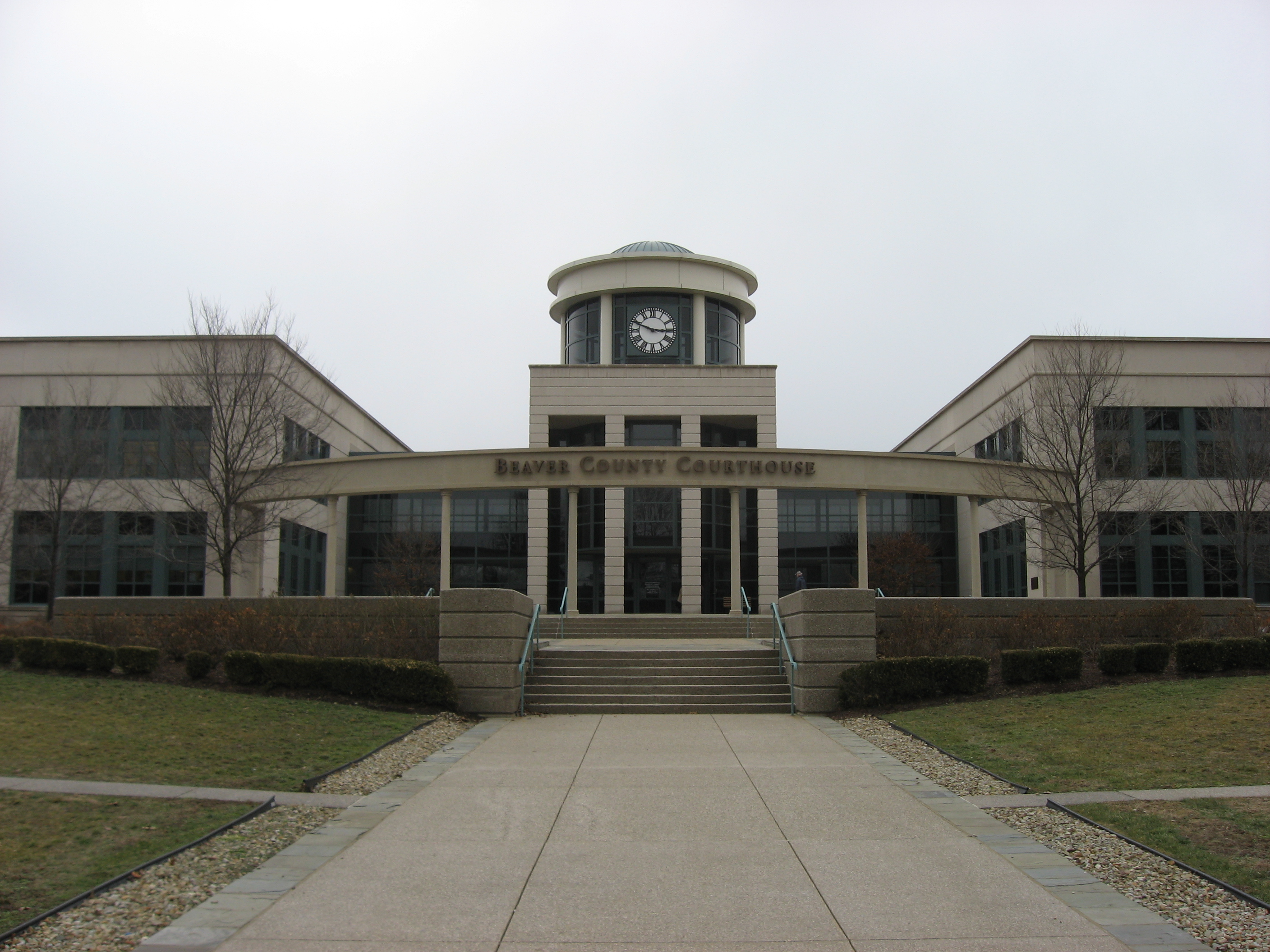 Frontal view of the Beaver County Courthouse, located along Third Avenue between Market and Commercial Streets in downtown Beaver, Pennsylvania, United States.